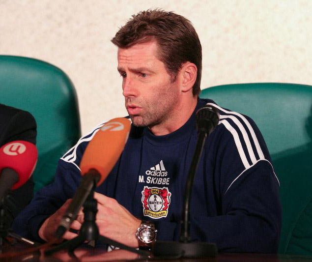 Michael Skibbe